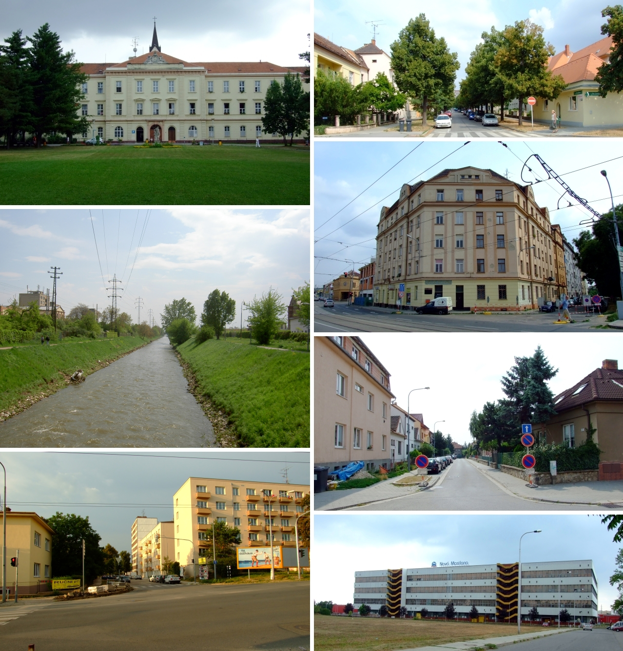 Brno-Černovice - main building of the Psychiatric Medical Institution Černovice from north